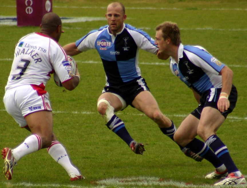 Hill, Howell & Walker